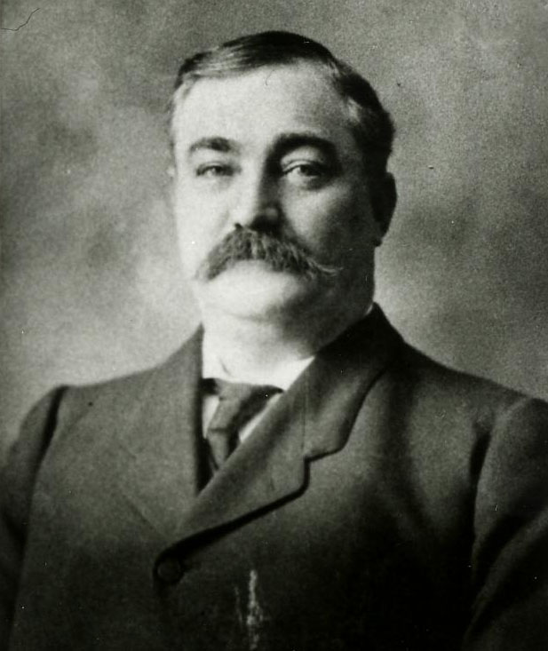 Rep. W.H. Hare